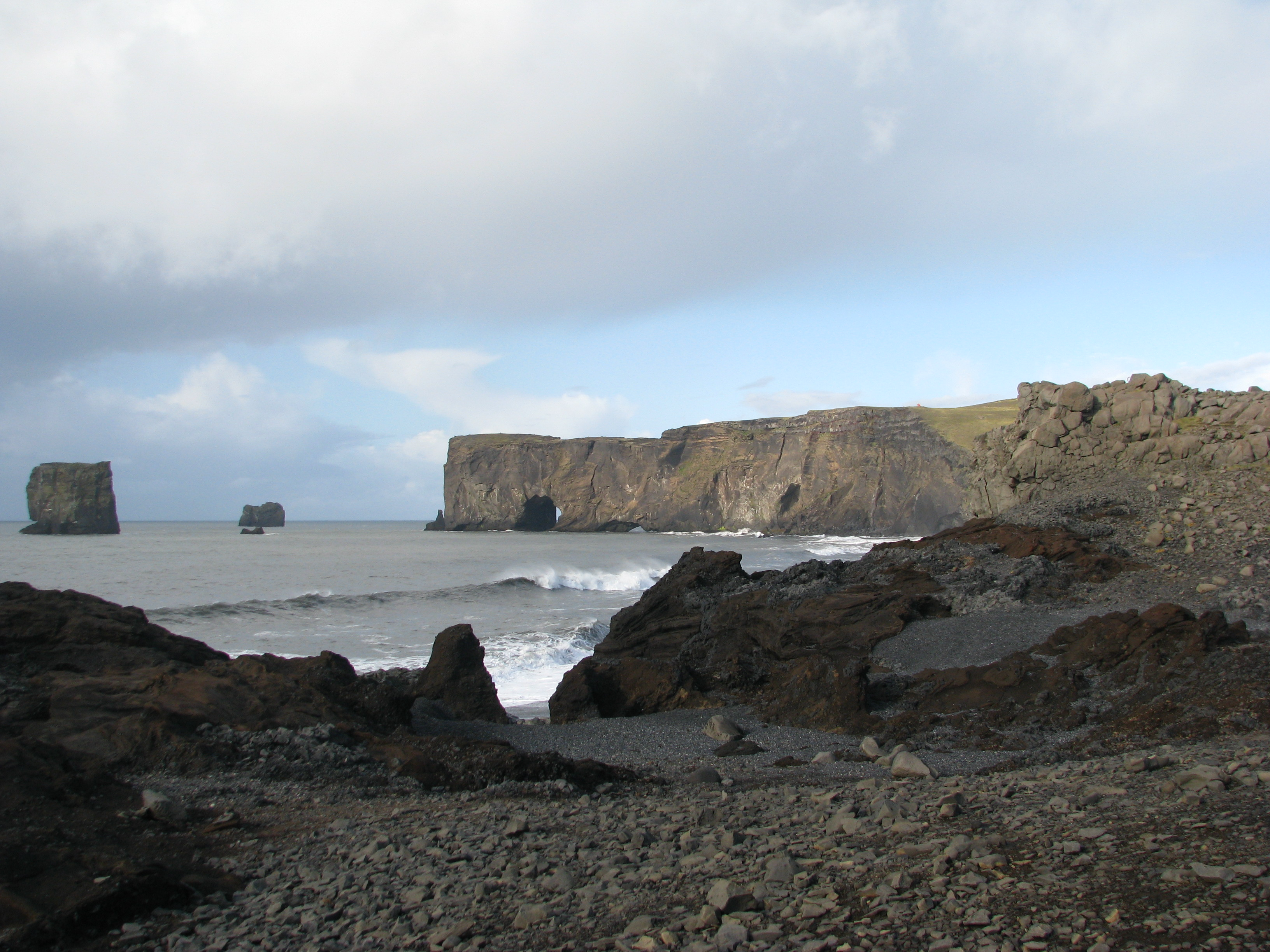 Dyrhólaey, Iceland